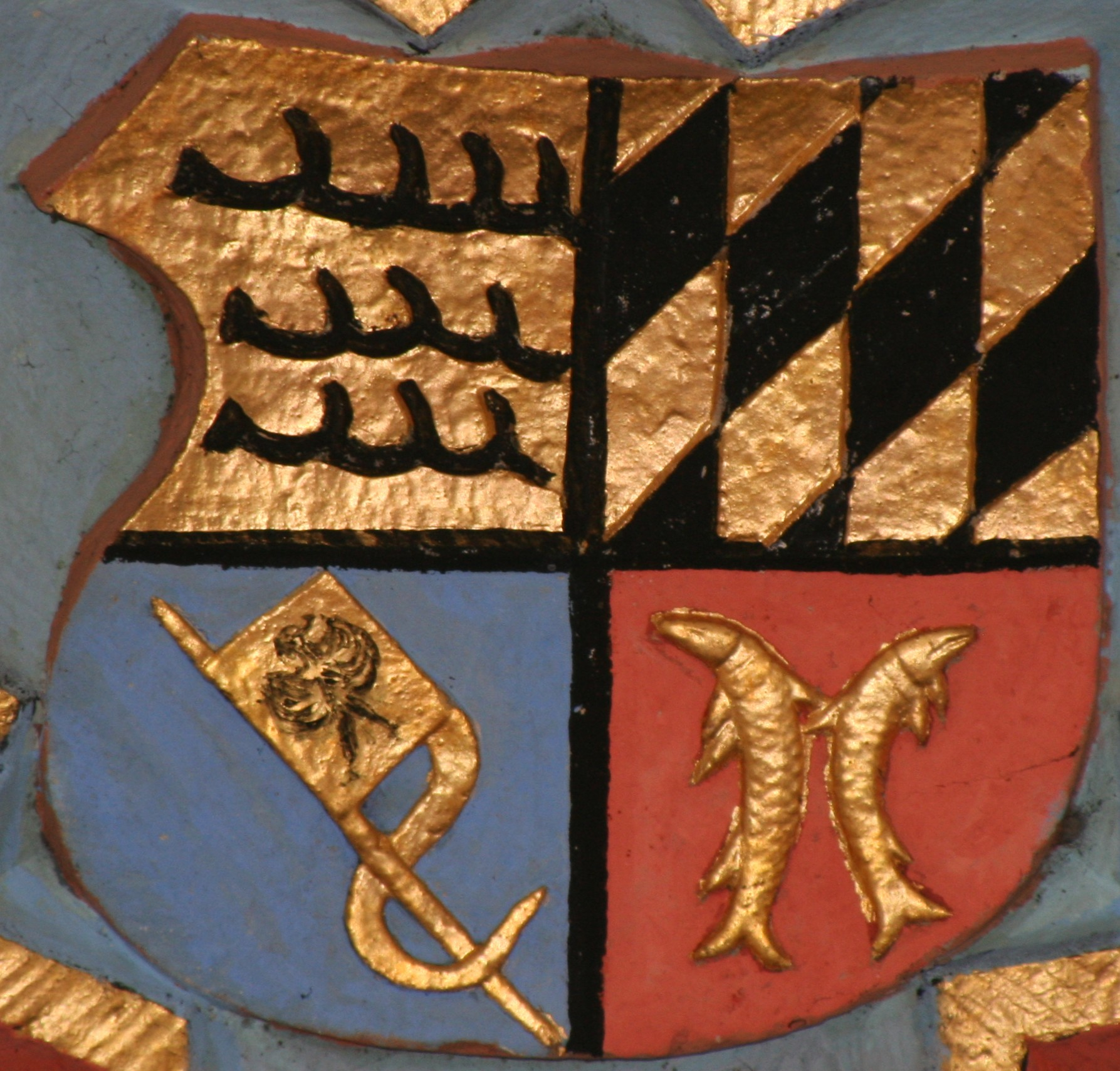 The Johanneskirche (St John's church) in Weinsberg. Keystone in the east quire, 1510, showing the coat of arms of Württemberg